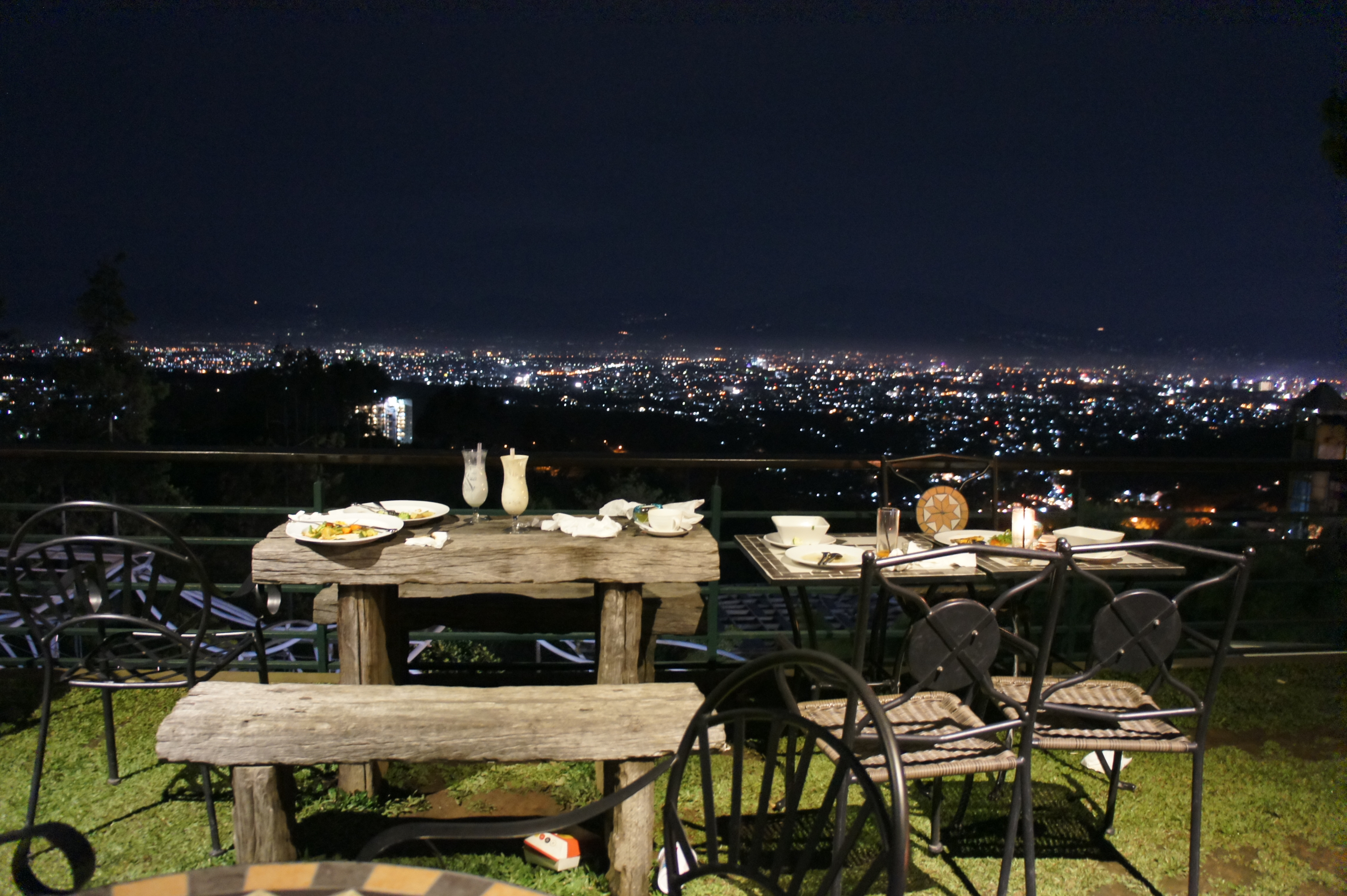 Cocorico, Dago - Bandung